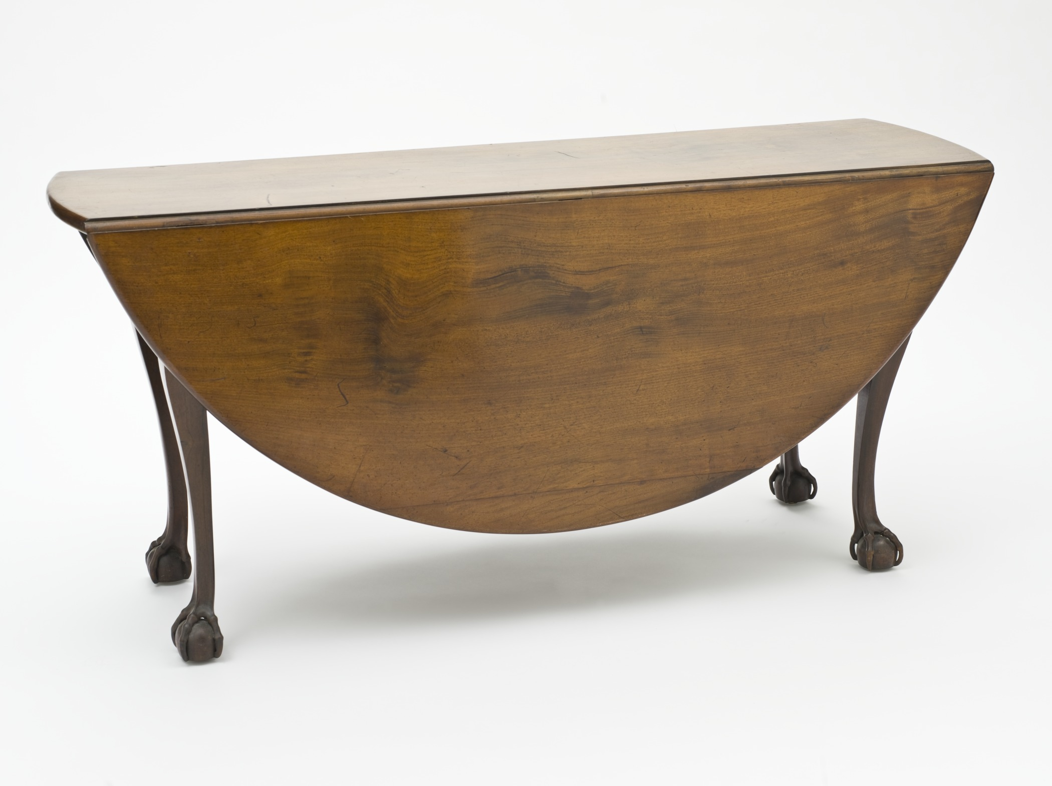 United States, Rhode Island, Newport, 1765-1785 Furnishings; Furniture Mahogany, chestnut, pine 28 5/16 x 60 1/8 x 18 7/8 in. (71.91 x 152.72 x 47.94 cm) Gift of Mrs. Murray Braunfeld (M.2006.51.9) Decorative Arts and Design